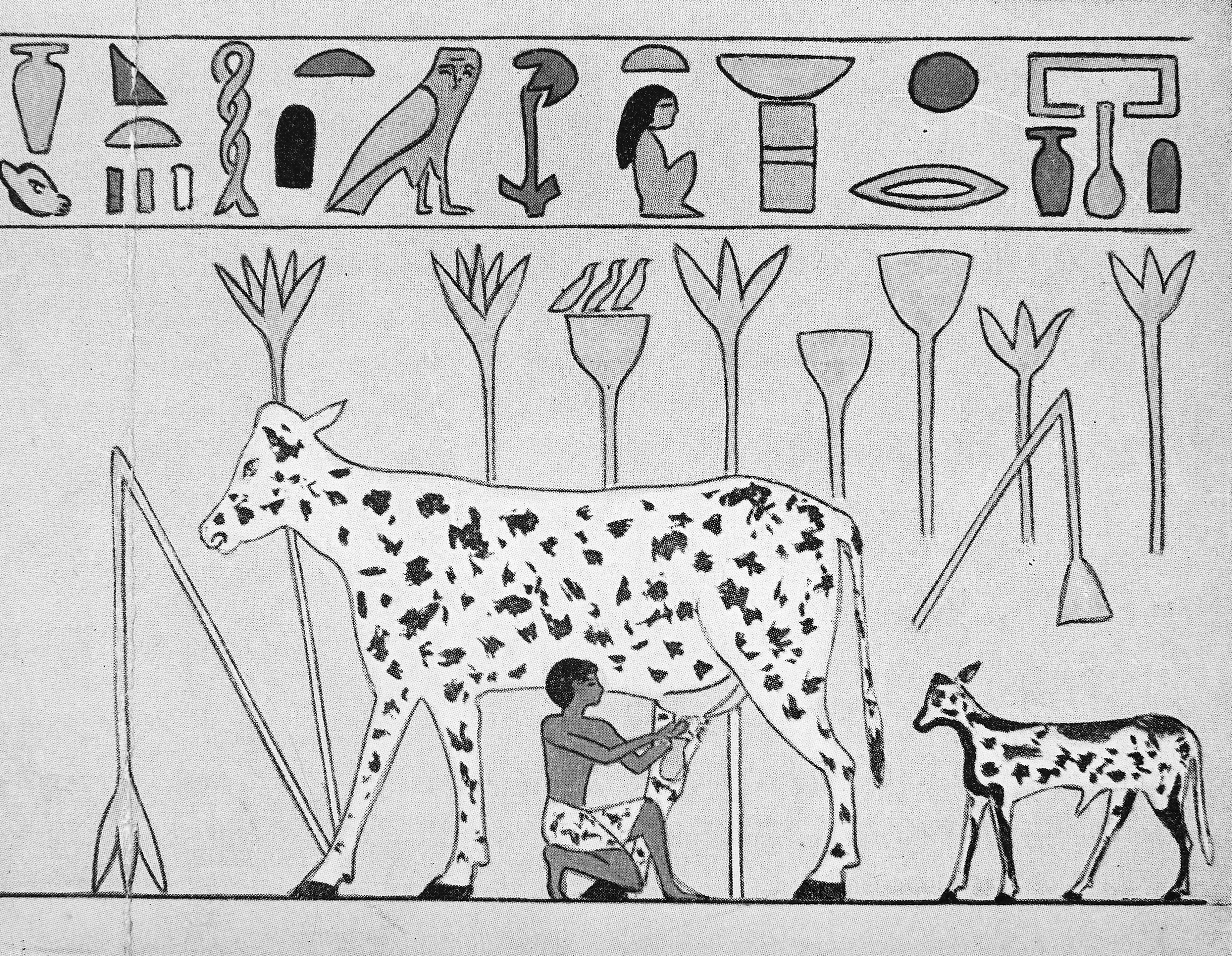 Tomb of Kemsit, Thebes, Egypt: man milking a spotted cow Wellcome Images Keywords: thebes, tomb of kemsit; archaeology: egypt